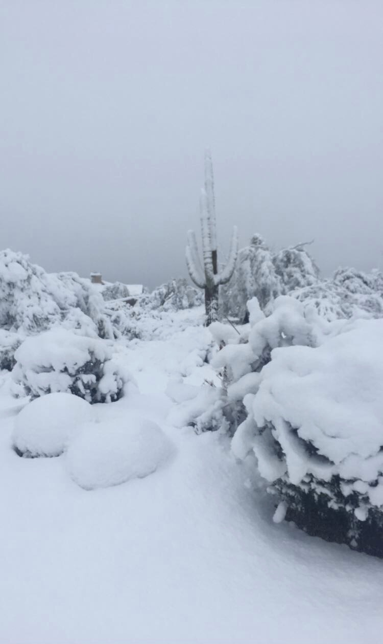 Snow in north Scottsdale